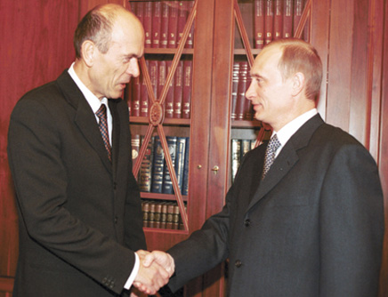 THE KREMLIN, MOSCOW. President Putin and Slovenian Prime Minister Janez Drnovsek.